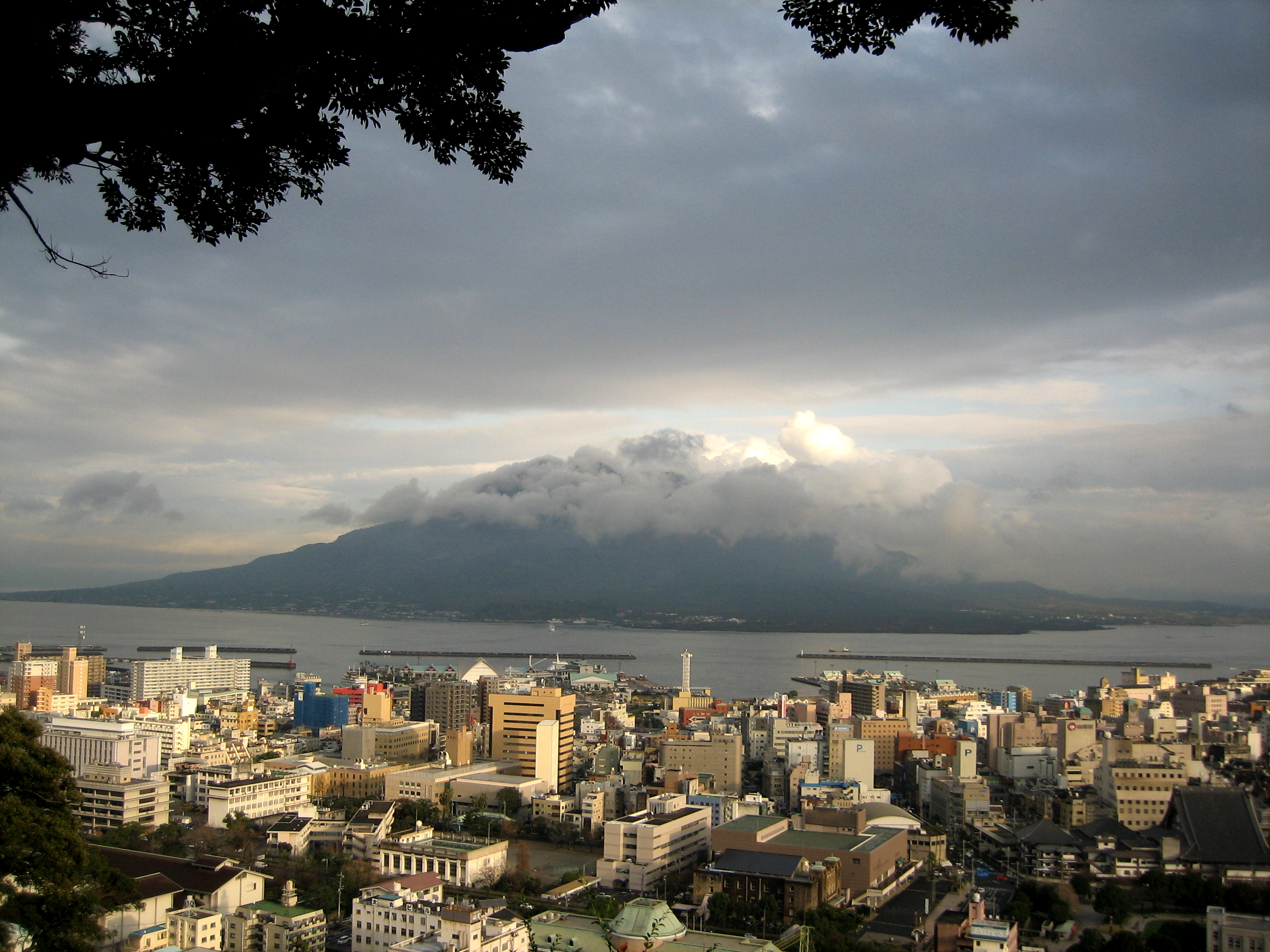 Sakurajima from Kagoshima, Kyushu, Japan.